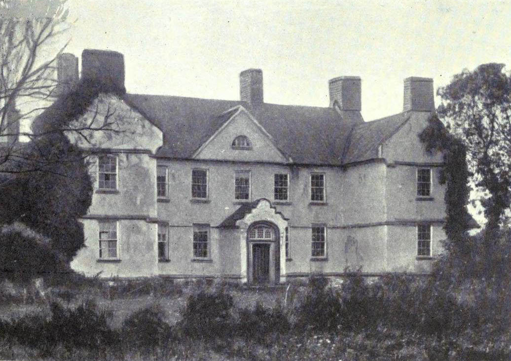 Crotta House, Crotta, Kilflynn, Co.Kerry, Ireland in 1902. Built by Captain Henry Ponsonby in 1669. Childhood home of 1st Earl Kitchener.